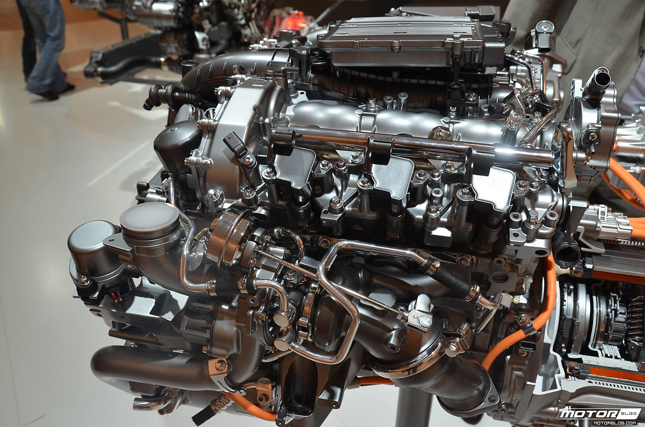 IAA Frankfurt 2013: Mercedes-Benz S 500 Plug-in Hybrid / Photo: Raphael Jahn ______________________ Please feel free to use this image for FREE under the Creative Commons (CC) licence. However, if you use the image, pls set a backlink to and give credit as following: "Image: ". For highres images or any other inquiries pls contact mailto: . Thanks.